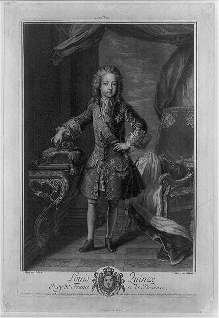 Portrait of King Louis XV as a child